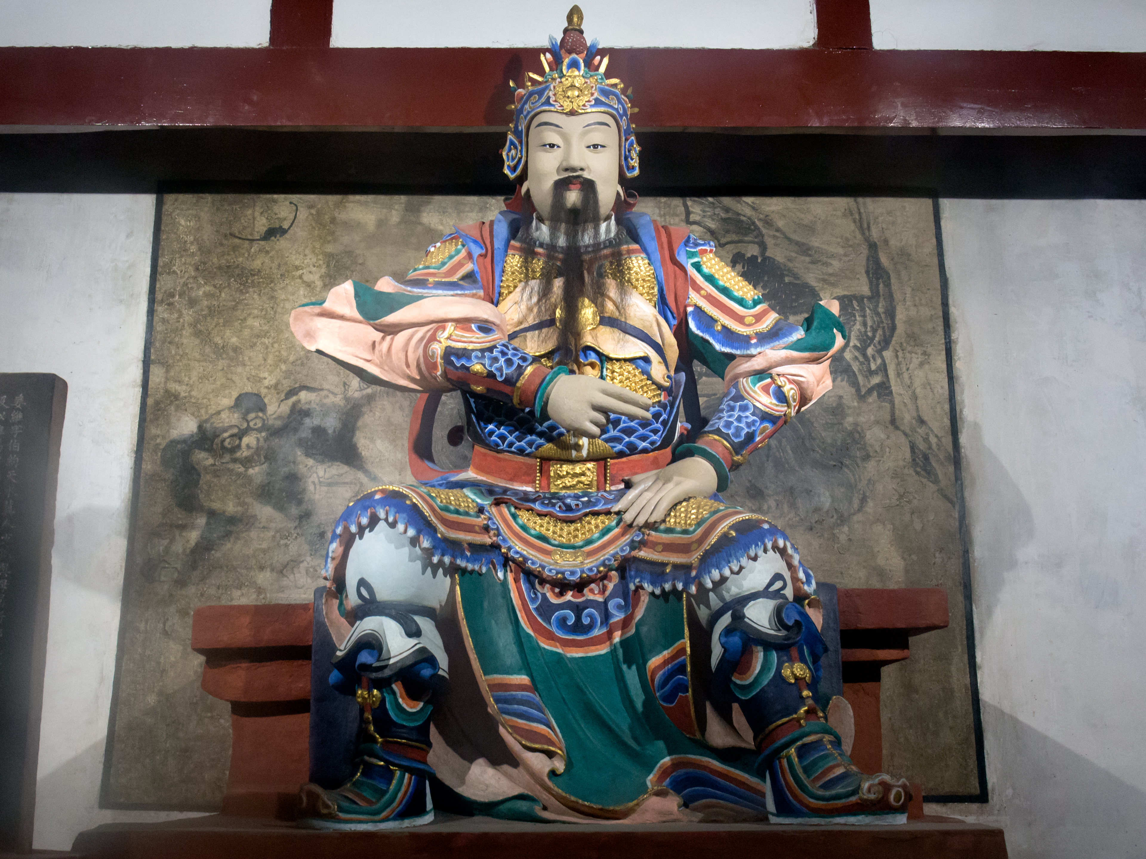 Jiang Wei (姜维)